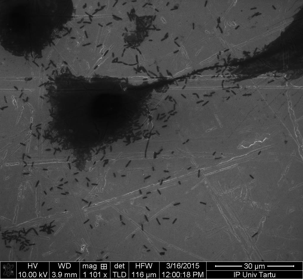 Biocompatibility and bioactivity of ultra thin osseointegration enhancing coatings is studied by several different methods. One possibility is to try growing osteoblast cells on study objects. But sometimes, everything does not turn out as planned! The image shows the surface of an implant with a deposited coating, where desired osteoblast cells are accompanied by undesired and unidentified bacteria.